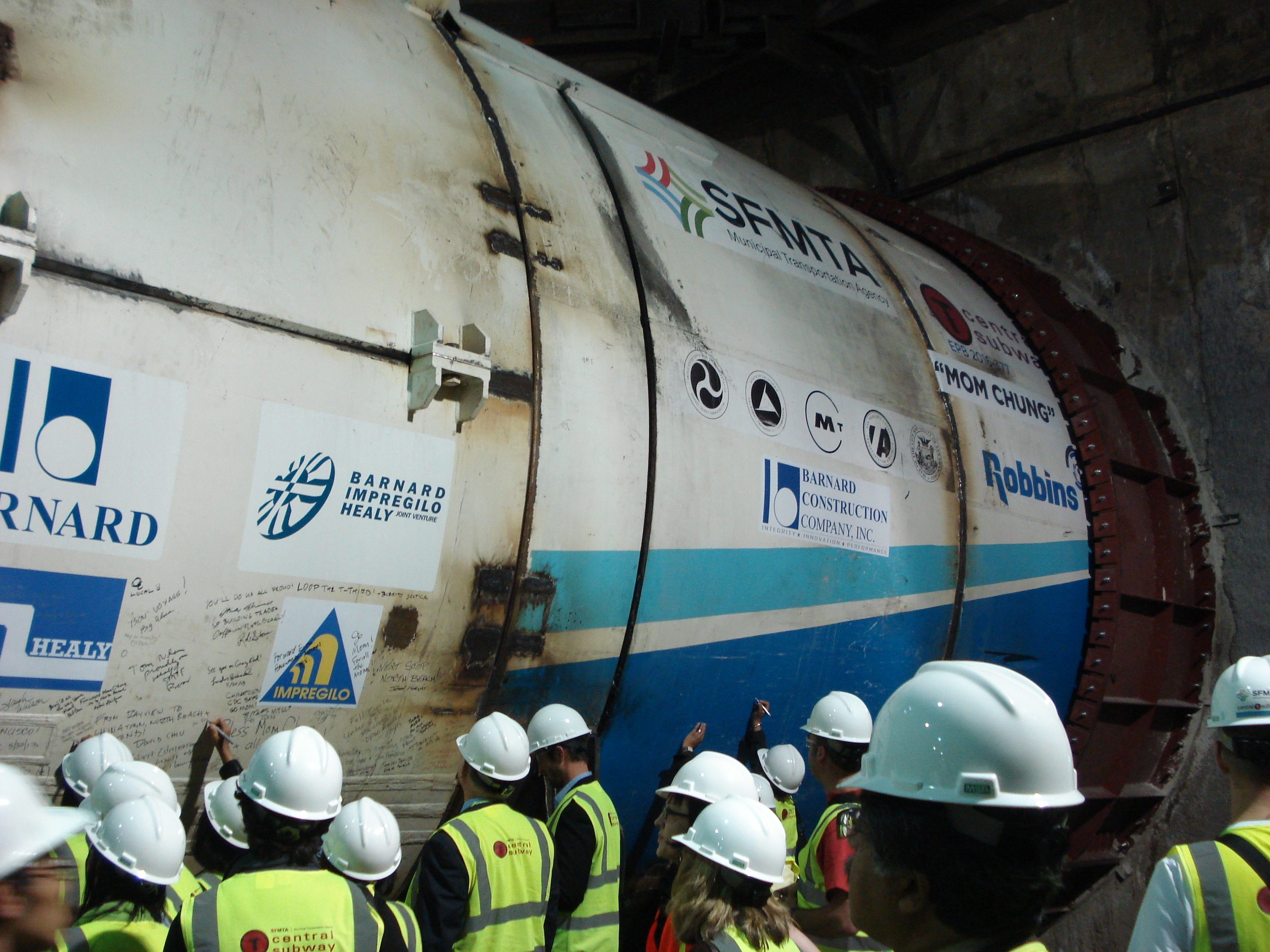 San Francisco Muni Central Subway Tunnel Boring Machine tour, May 30, 2013.